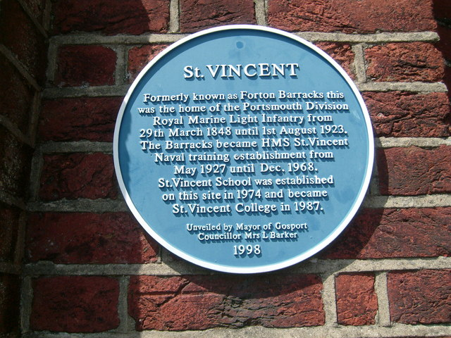 Plaque at Saint Vincent College. Plaque describing the history of St.Vincent college875893